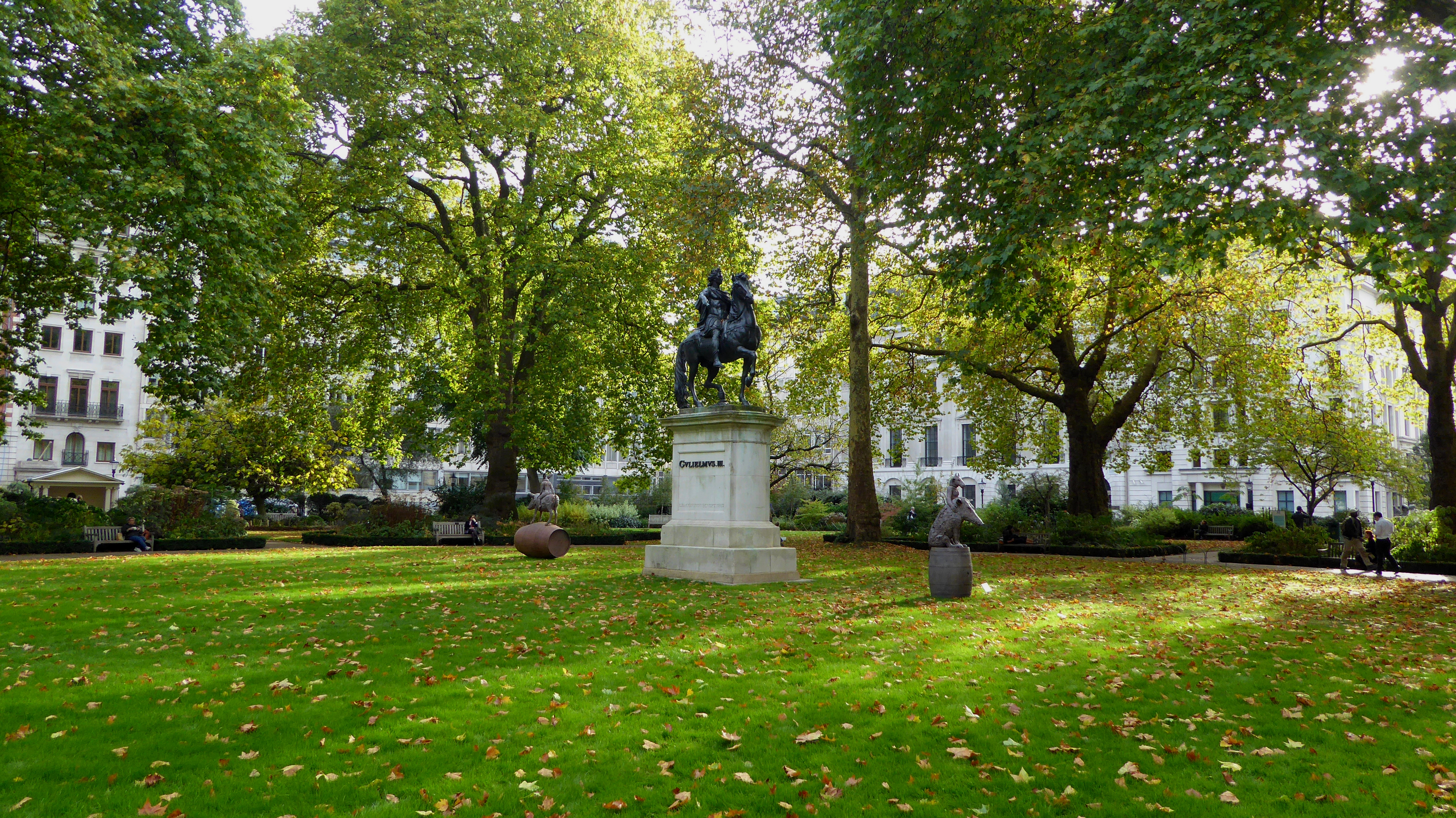 St James's Square in the City of Westminster.